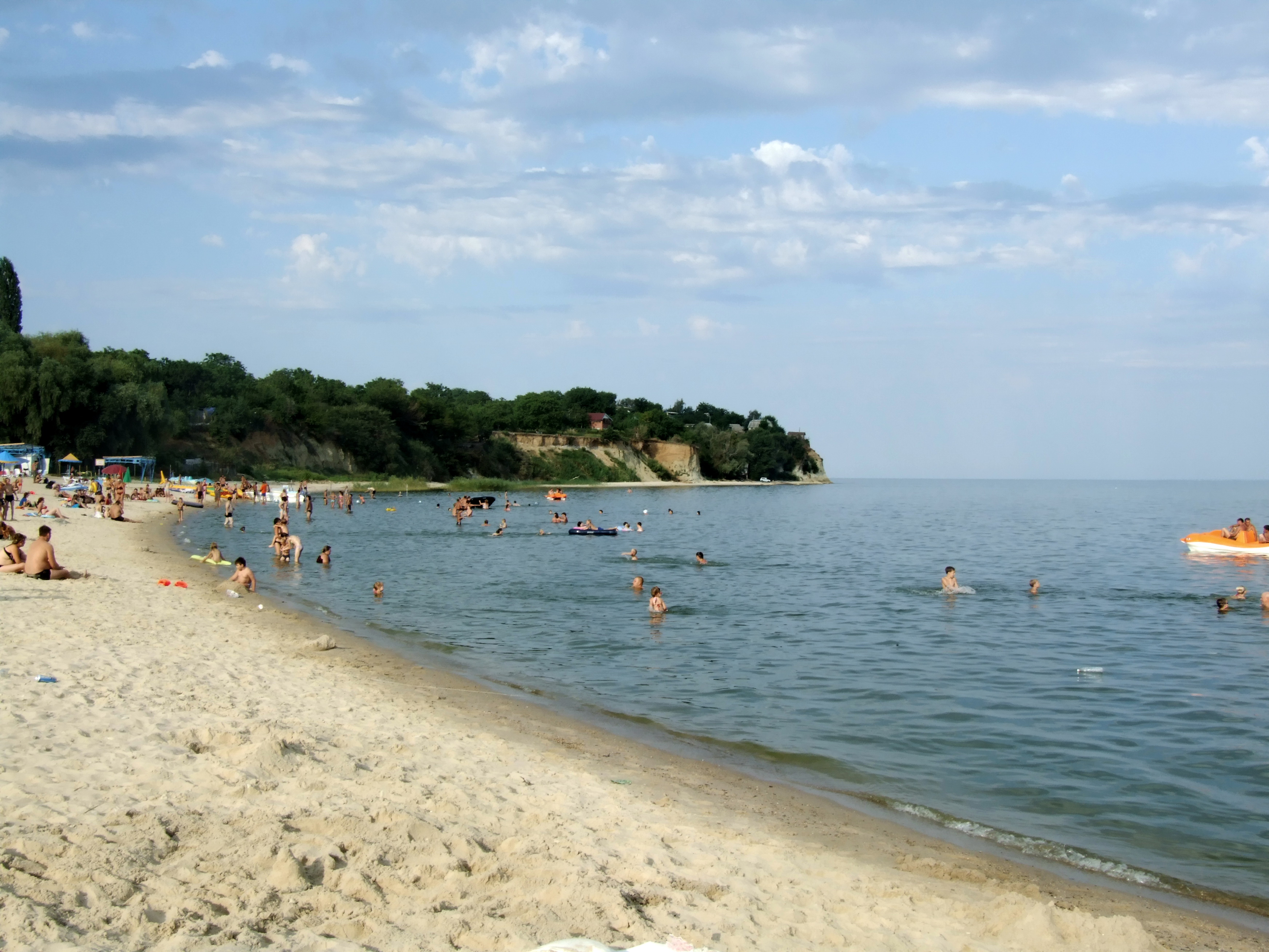 Tsimlyansky District, Rostov Oblast, Russia